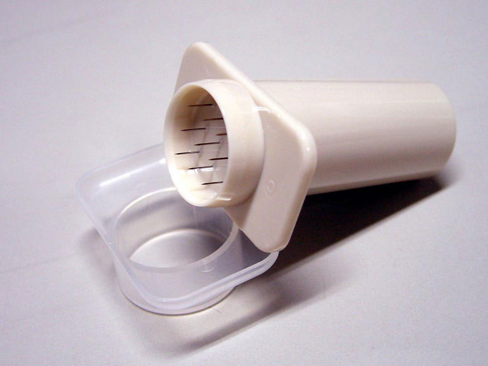 An apparatus for BCG vaccination using in Japan (管針, or Kuchiki's needle). Disposable apparatus of 4-5 cm length, with nine short needles for multi-puncture vaccination.